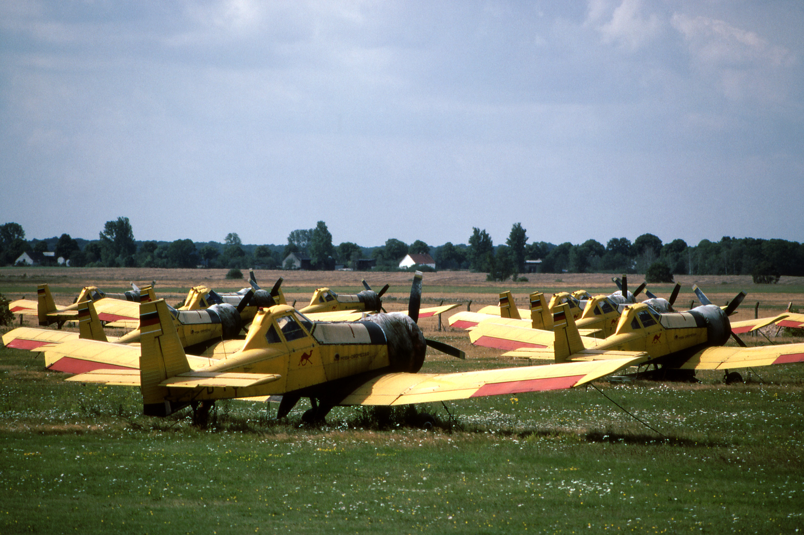 Airfield Anklam, discarded PZL M-18A dromedary; Anklam, Mecklenburg-Western Pomerania, Germany